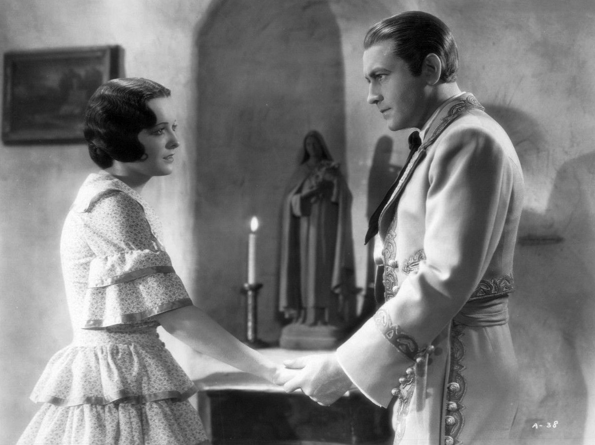 Richard Barthelmess and Marion Nixon in a scene from the 1931 film The Lash.